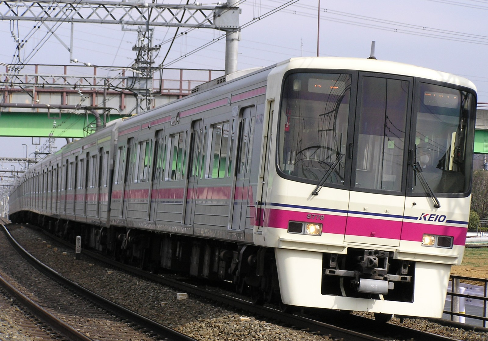 撮影地 Place of photo南平～平山城址公園撮影の状況 How to take公道から撮影 At public roadトリミングの有無 Cropped or notトリミング済み Cropped内容 Description京王8000系8728F Keiō8000 series